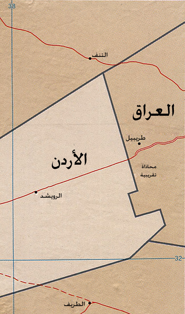 Jordan Iraq Borders (2004).